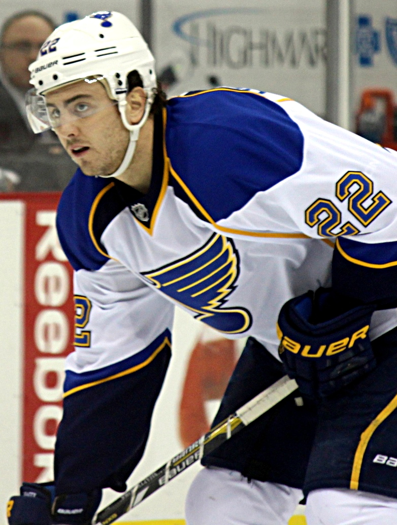 St. Louis Blues defenseman Kevin Shattenkirk during a game against the Pittsburgh Penguins, March 23, 2014, at Consol Energy Center in Pittsburgh, PA.